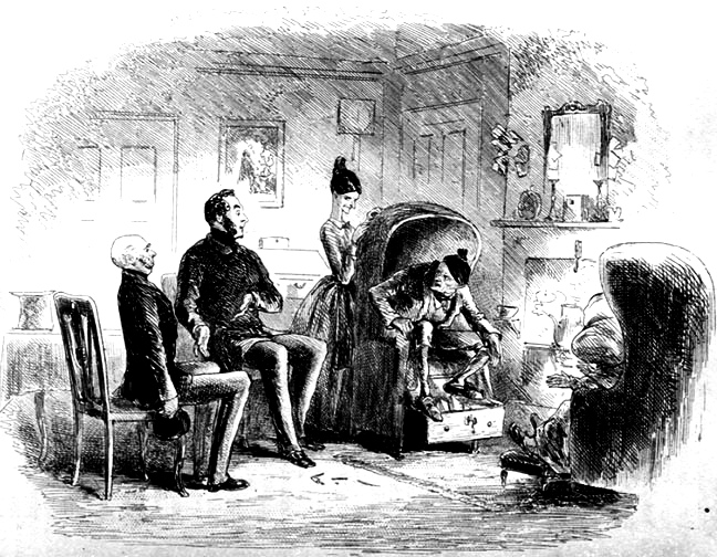 Mr. Smallweed Breaks the Pipe of Peace by "Phiz" (Hablot Knight Browne) for Bleak House, p. 338 (ch. 3, "A Turn of the Screw"). 4 x 5 3/16 inches.